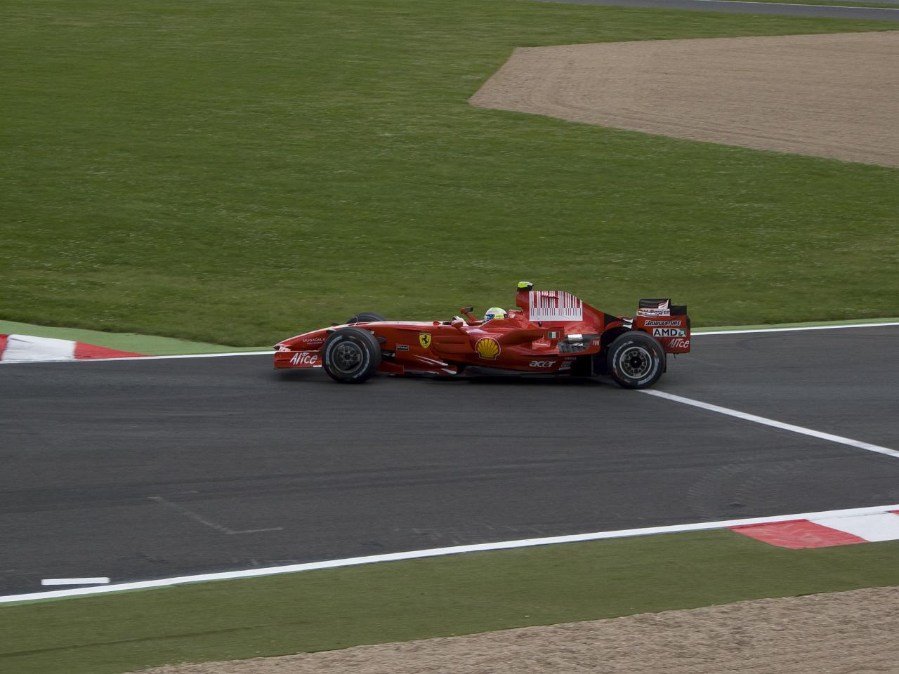 Felipe Massa at the 2008 French Gran Prix